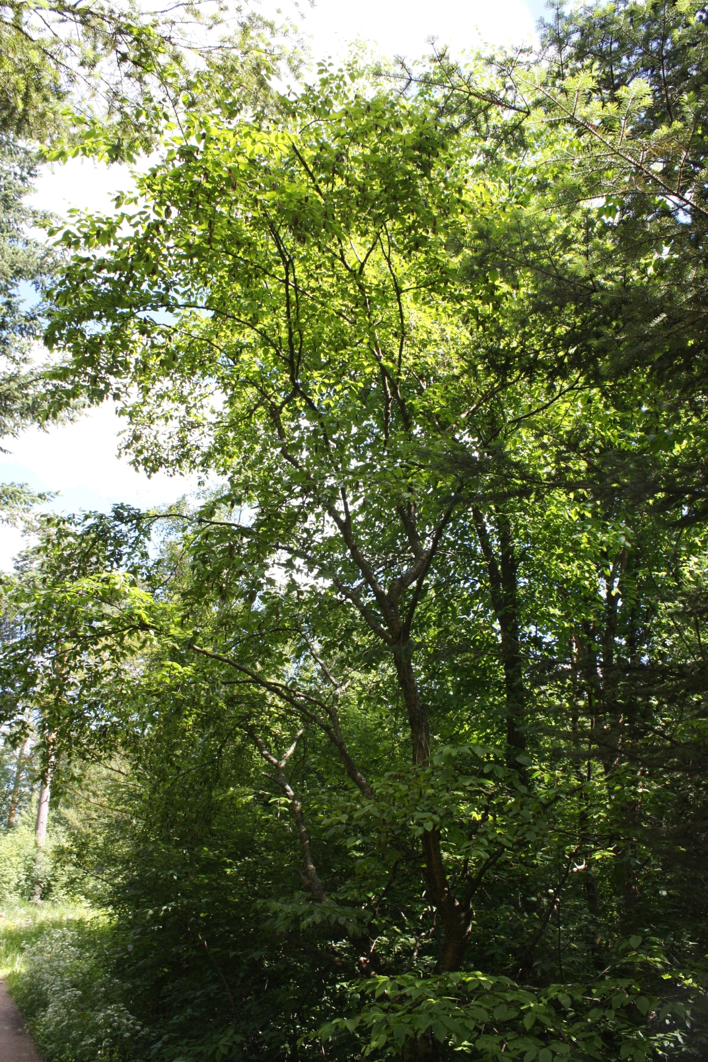 Yellow Birch (Betula alleghaniensis) in Viikki Arboretum in Helsinki, Finland